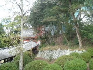 The forested region around the Kibutsu Shrine, Okayama Prefecture, Japan. Photograph by Bharat Bhushan, December 2006.